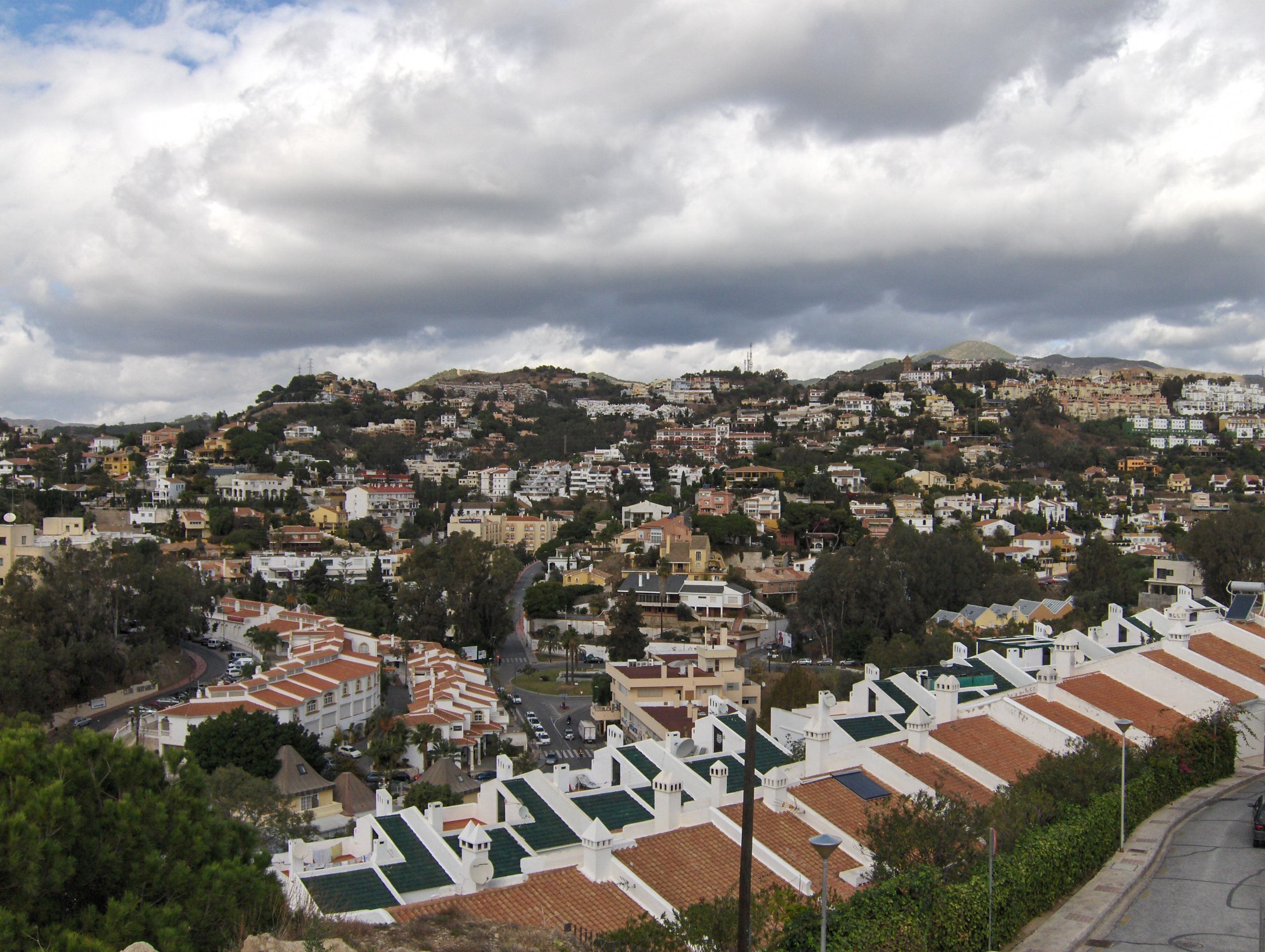 View of Cerrado de Calderón, Málaga, Spain.